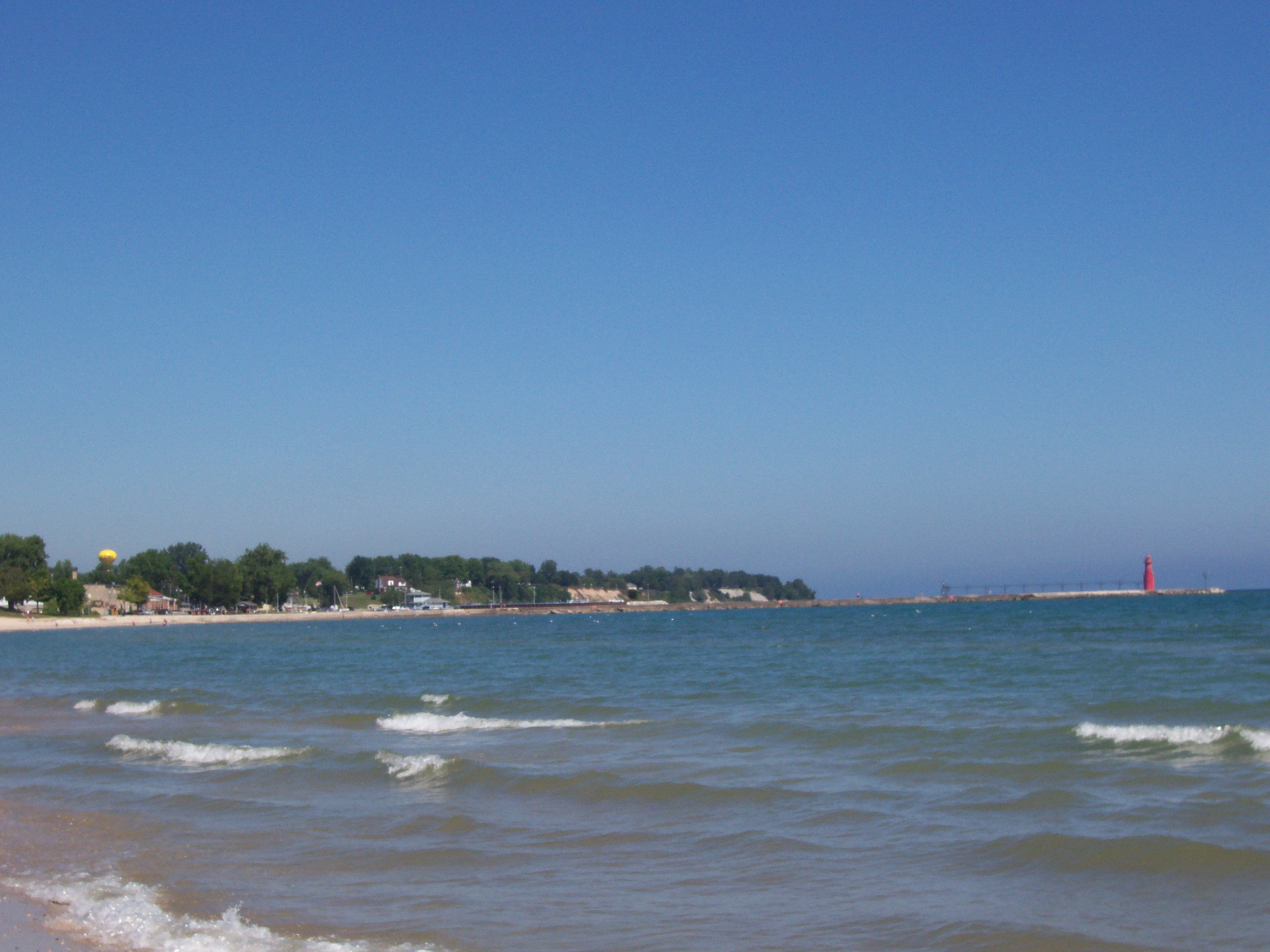 A picture looking at part of Algoma, Wisconsin. The location looks over Lake Michigan, and includes the red Algoma Pierhead Lighthouse (right). This image was taken August 27, 2006 by User:Royalbroil